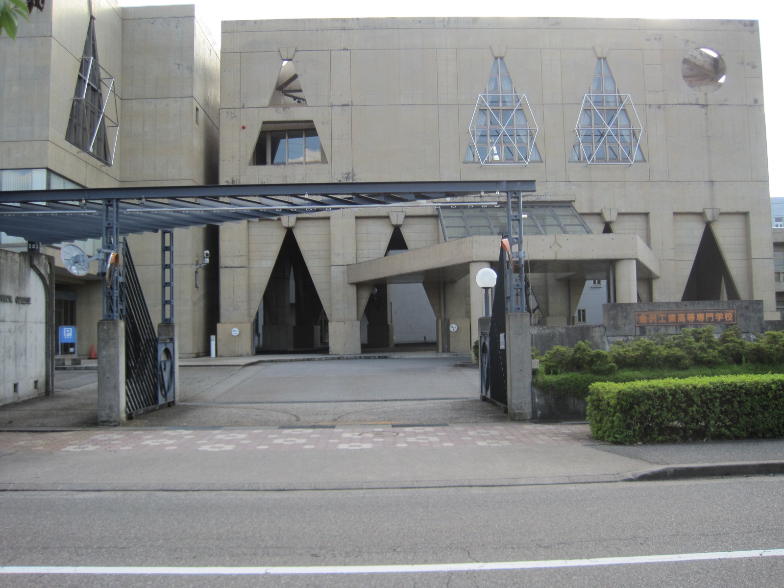 Kanazawa Technical College(Kanazawa city, Ishikawa prefecture)